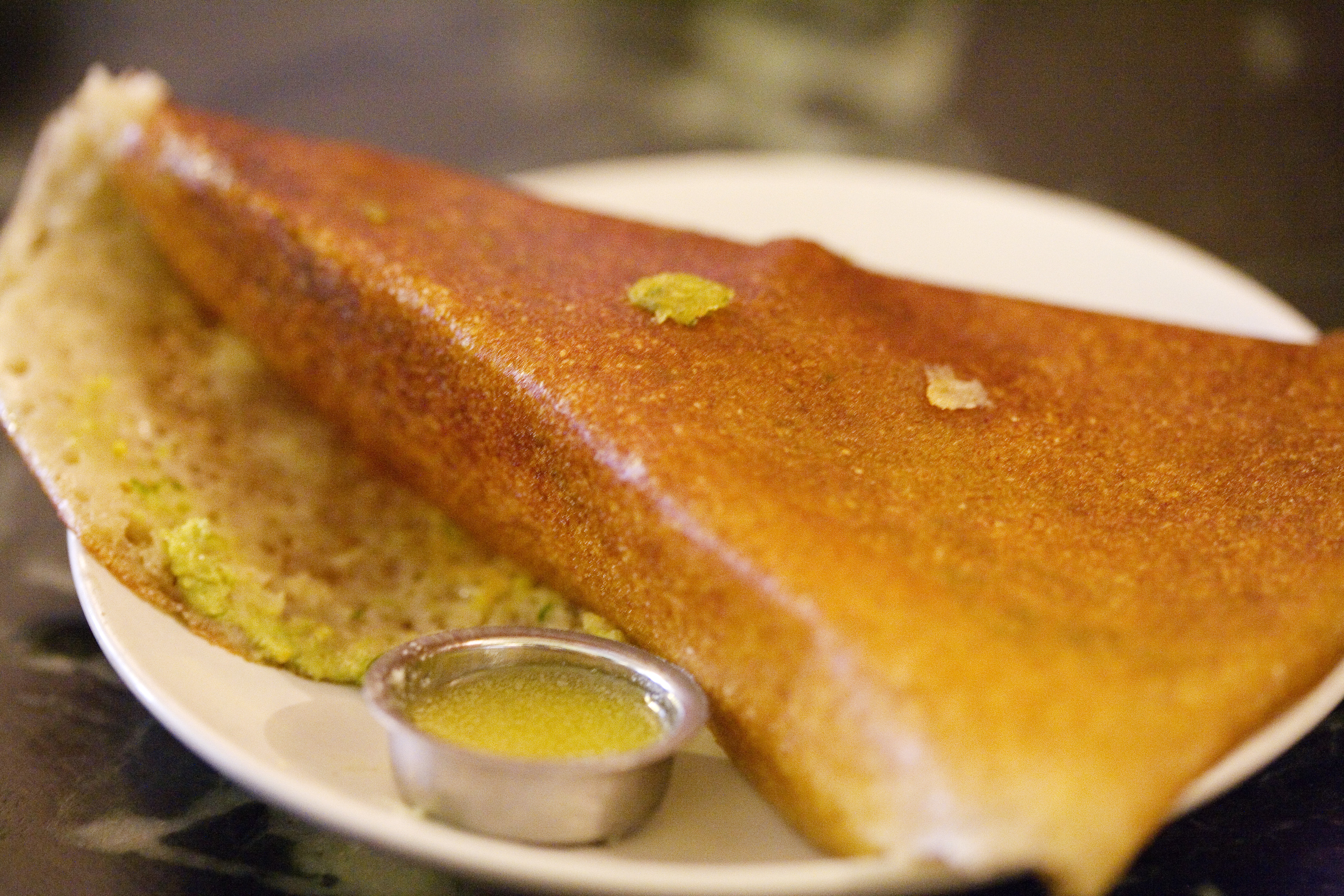 Dosa (rice pancake) with a cup of ghee (clarified butter) at Mavalli Tiffin Room in Bangalore. Original caption: this was delicious but had a TON of ghee